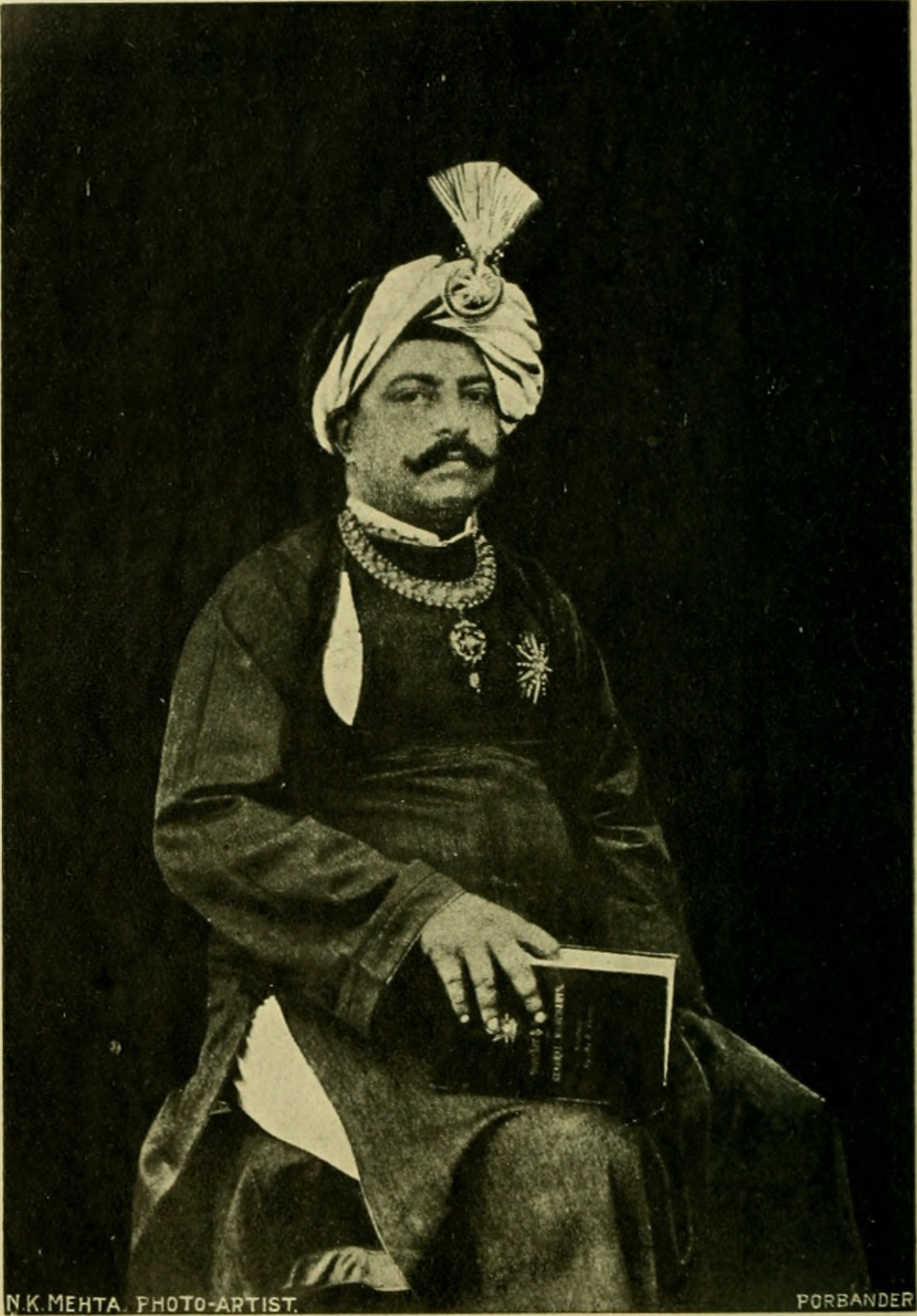 Bhavsinhji Maharaja of Porbandar Title: Botany : a complete and comprehensive account of the flora of Barda Mountain (Kathiawad) Year: 1910 (1910s) Authors: Indraji, Jayakrshna Subjects: Plants Materia medica, Vegetable Medicine, Ayurvedic Publisher: Bombay : Printed at the "Gujarati" Printing Press Contributing Library: The LuEsther T Mertz Library, the New York Botanical Garden Digitizing Sponsor: The LuEsther T Mertz Library, the New York Botanical Garden